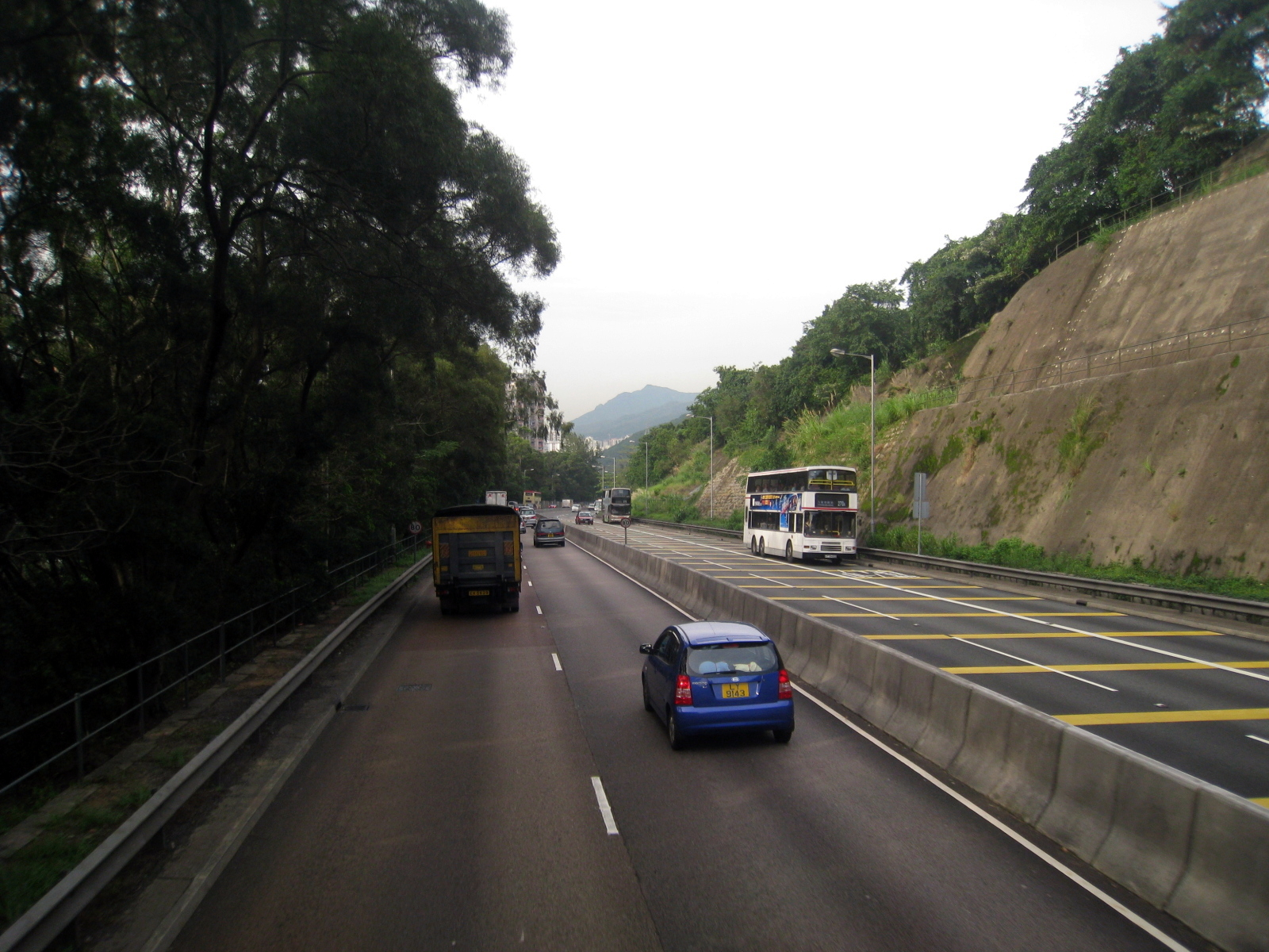 HK Lion Rock Tunnel Highway N.T. Section 獅子山隧道公路新界段